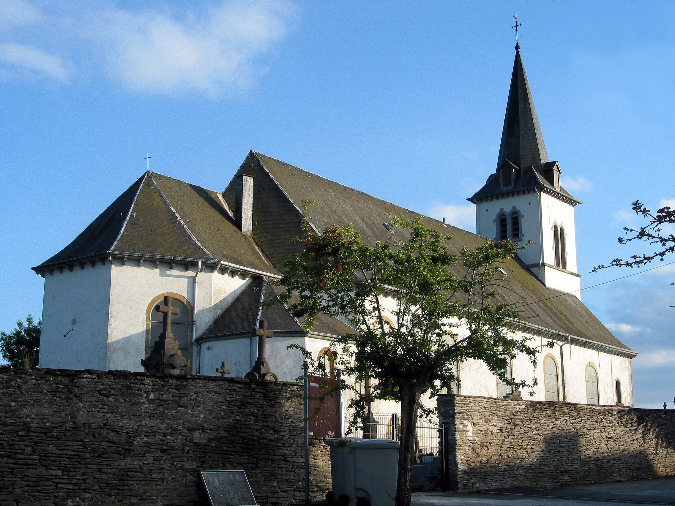 Longlier (Belgium), St. Stephens’ church (XVIIIth century).